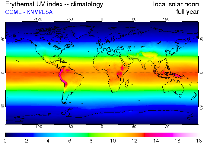 Solar noon UV Index average for 1996-2002, based on GOME spectrometer data from ESA's ERS-2 satellite, as published by KNMI (Royal Netherlands Meteorological Institute).